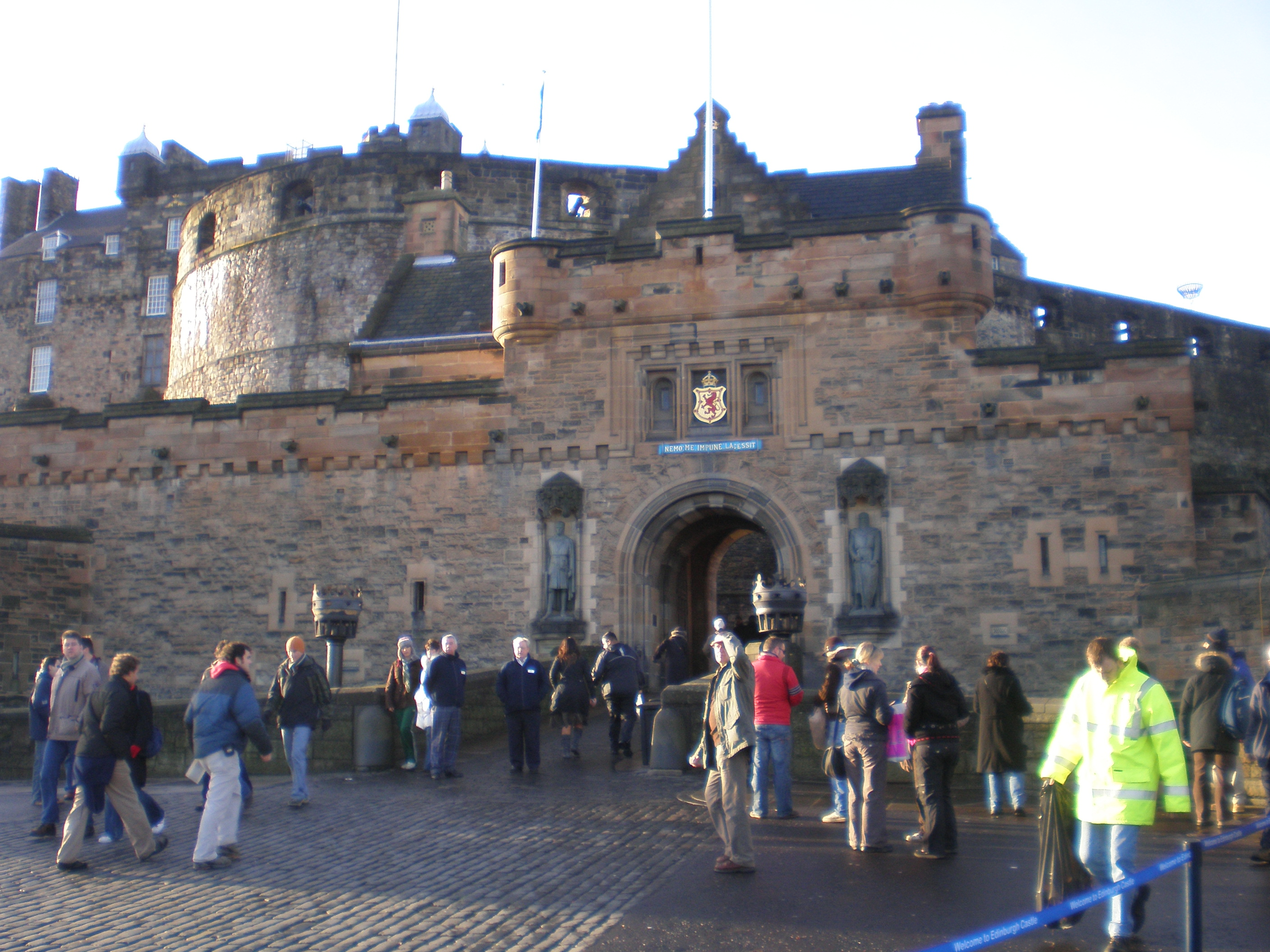 Entry to Edinburgh Castle.